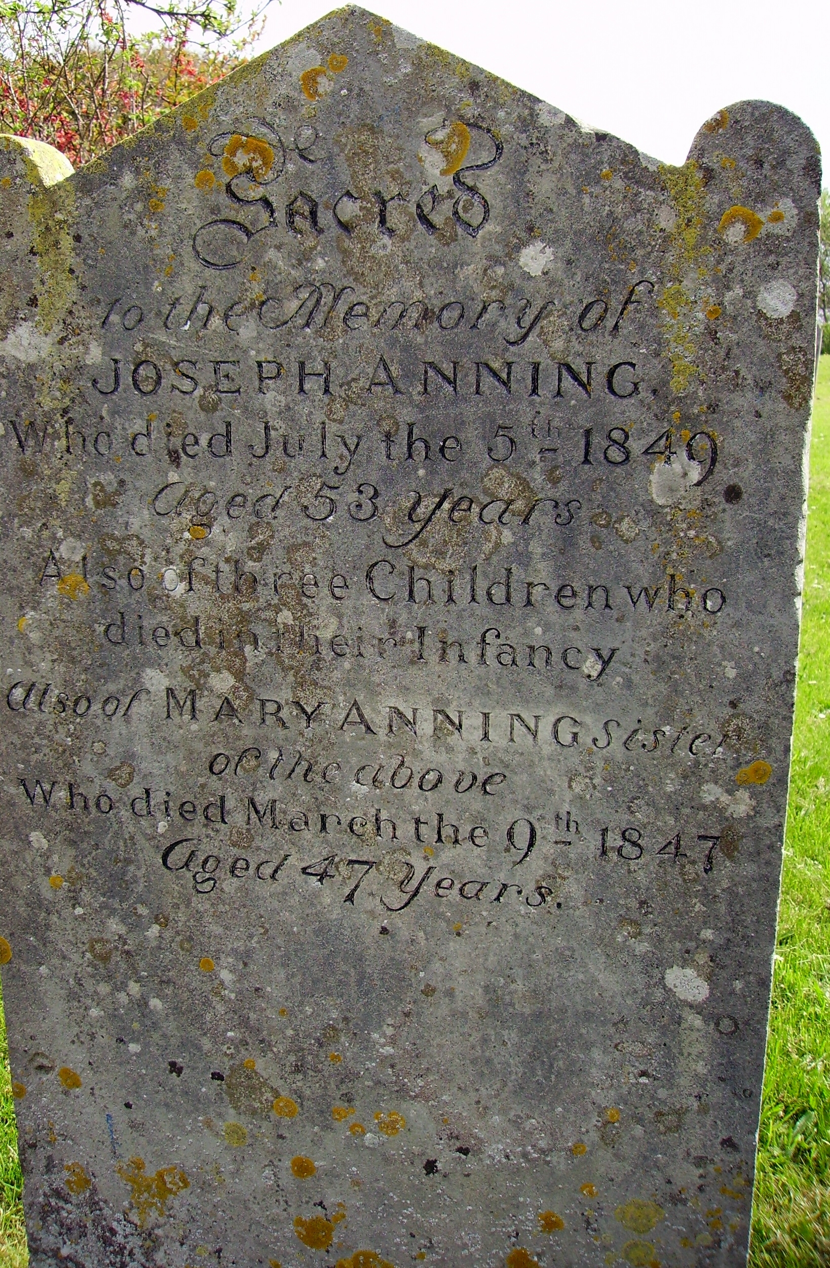 Photographer: User:Ballista The gravestone of the 19th-century English fossil collector Mary Anning and her brother Joseph Anning, in St Michael's parish church, Lyme Regis, England.